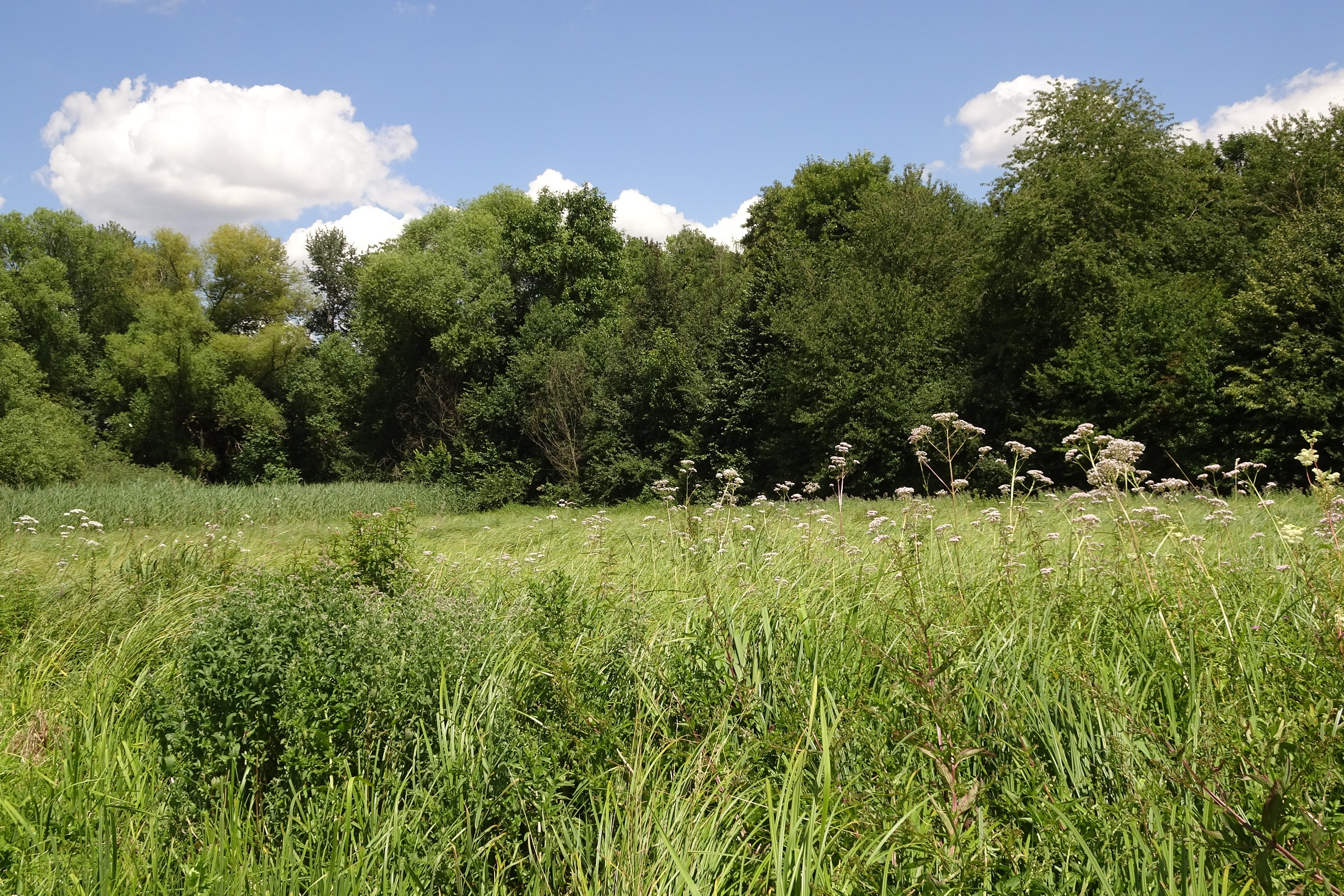 Protected area "Taubensemd von Habitzheim, Semd und Groß-Umstadt" (Landkreis Darmstadt-Dieburg, Hesse, Germany).